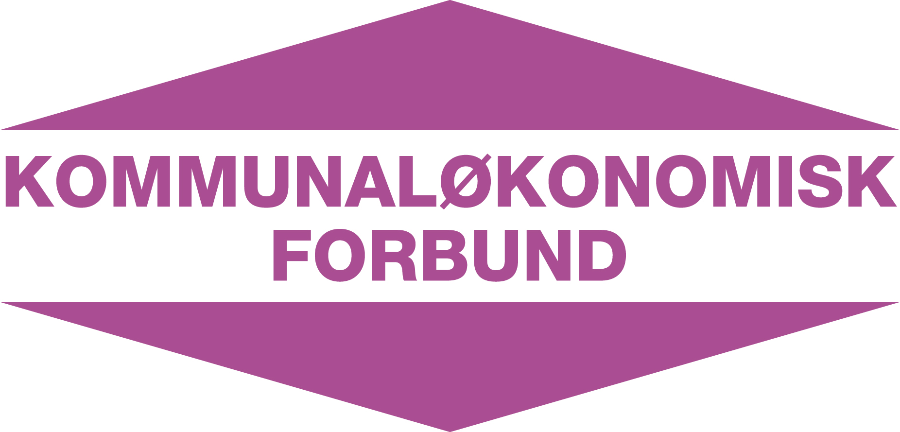 Delta